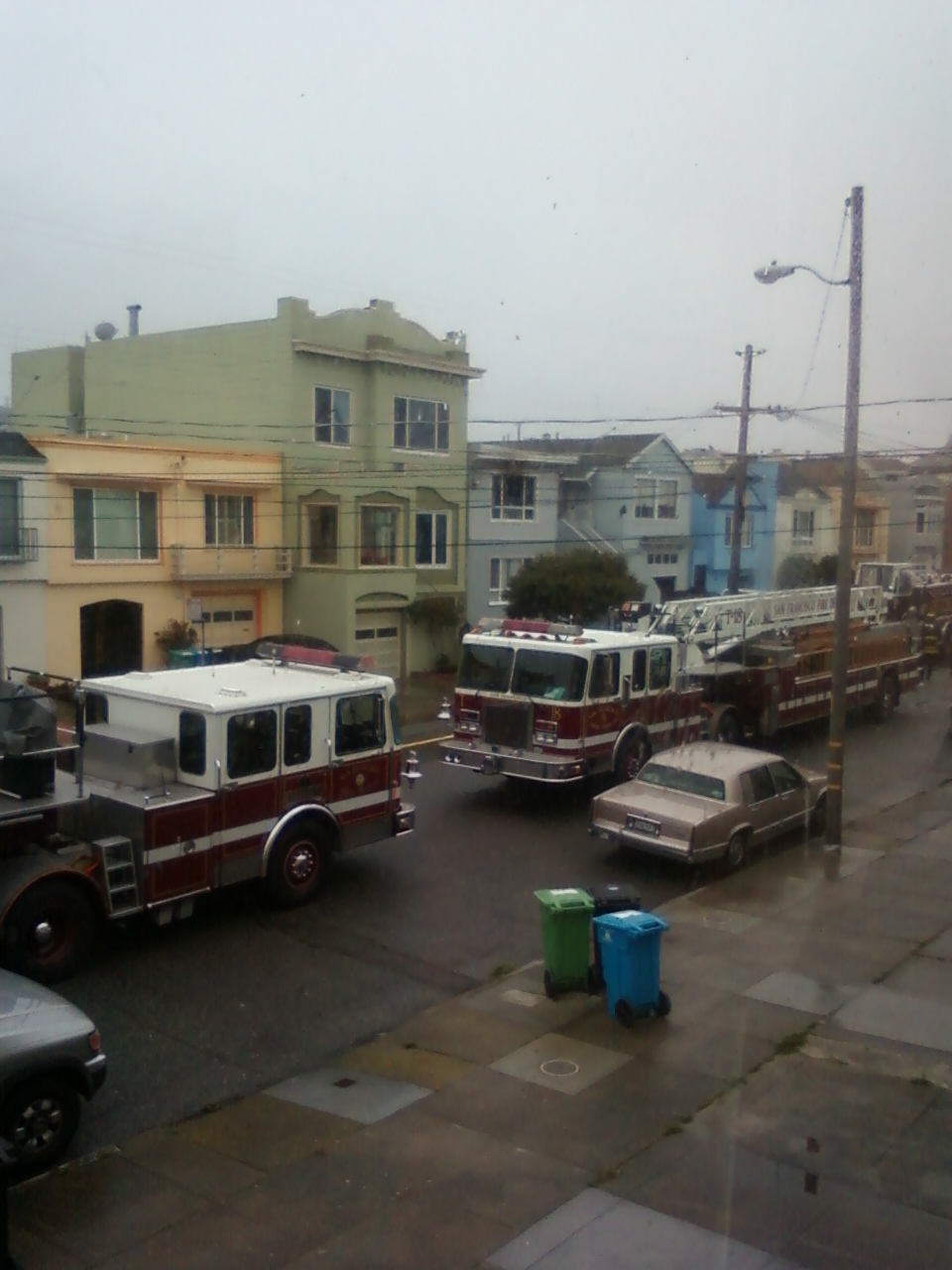 picture of two firetrucks addressing a fire on 41st avenue between irving and judah in san francisco, ca